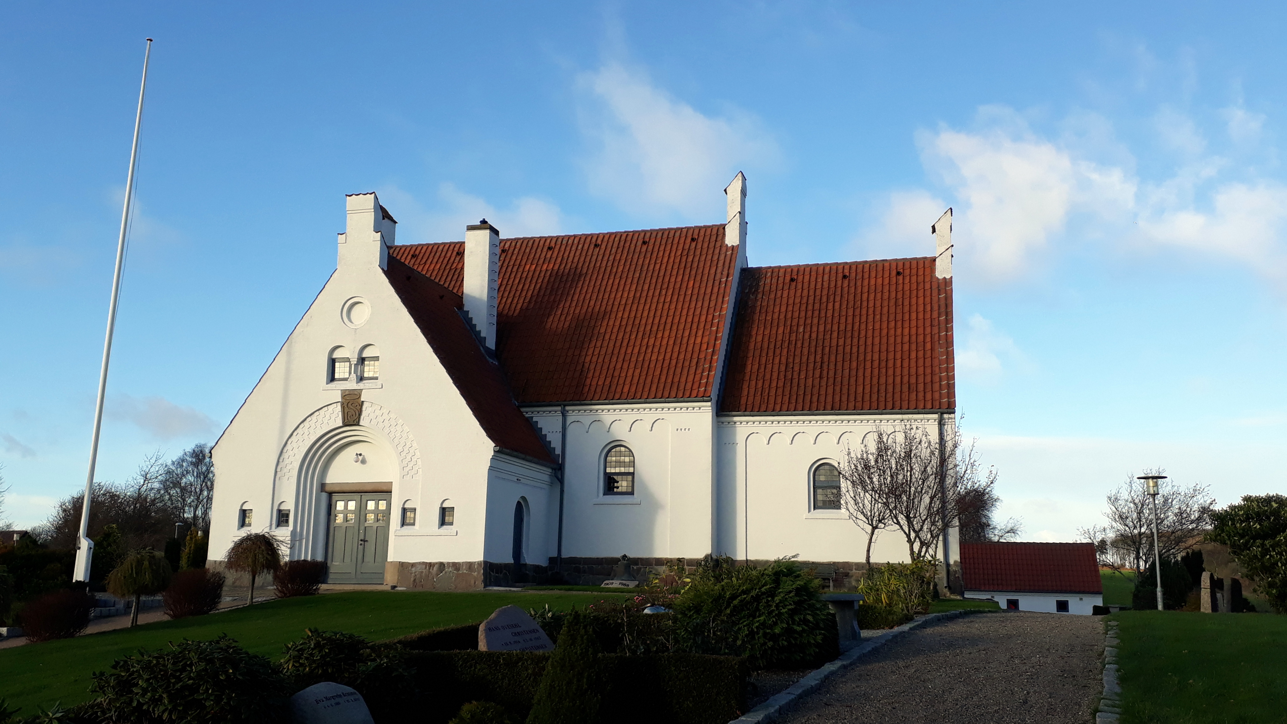 Morild Church, Denmark